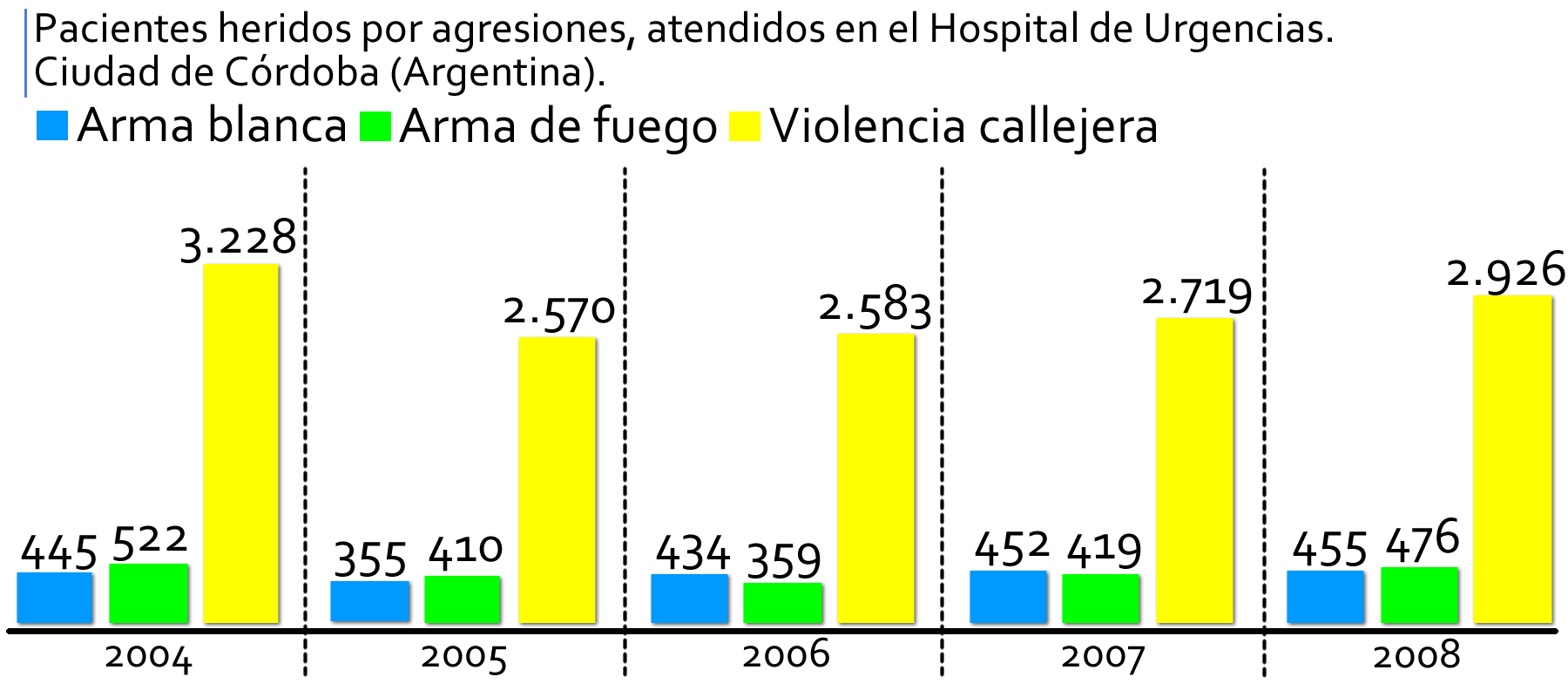 Statistics of violence treated at Urgencias (urgency) hospital. Córdoba, Argentina.